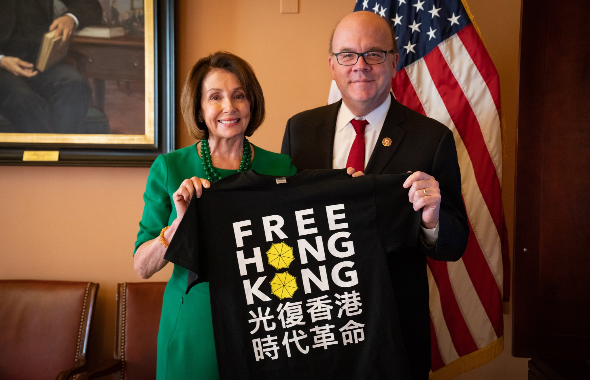 On one side, you have a repressive regime crushing democratic freedoms in Hong Kong. On the other, you have young people speaking out for freedom & democratic reforms. Proud to stand with Representative Jim McGovern in support of today’s bipartisan votes showing the House’s commitment to HK.